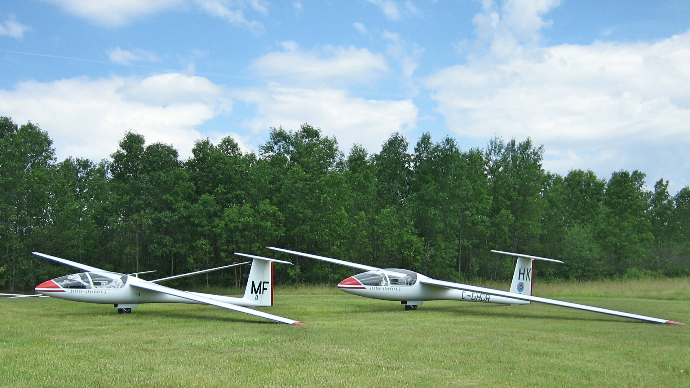 A SZD-48 (MF) and a SZD-48-1 (HK) Jantar Standard 2 sailplanes at SOSA Gliding Club, Rockton, Ontario, Canada